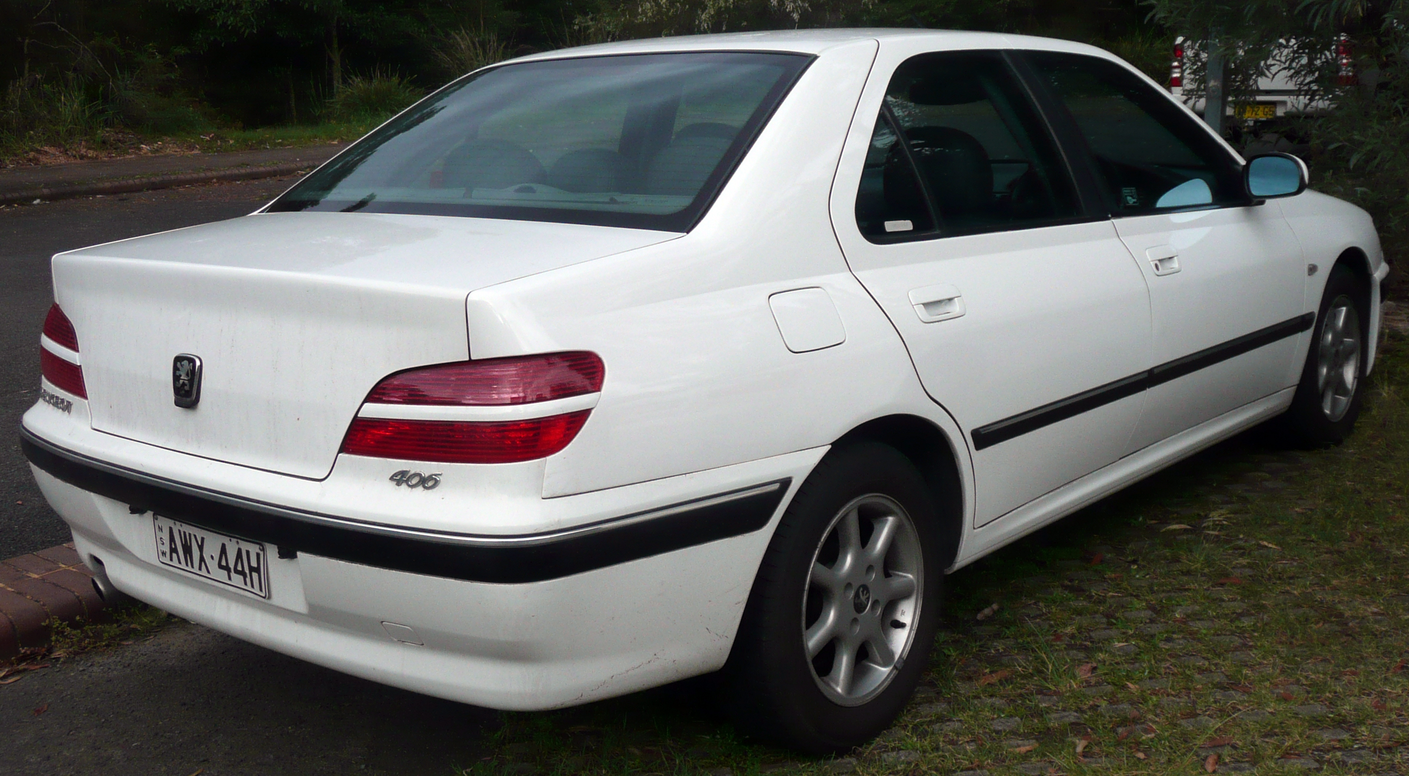 2000 Peugeot 406 (D9) SV sedan. Photographed in Audley, New South Wales, Australia.